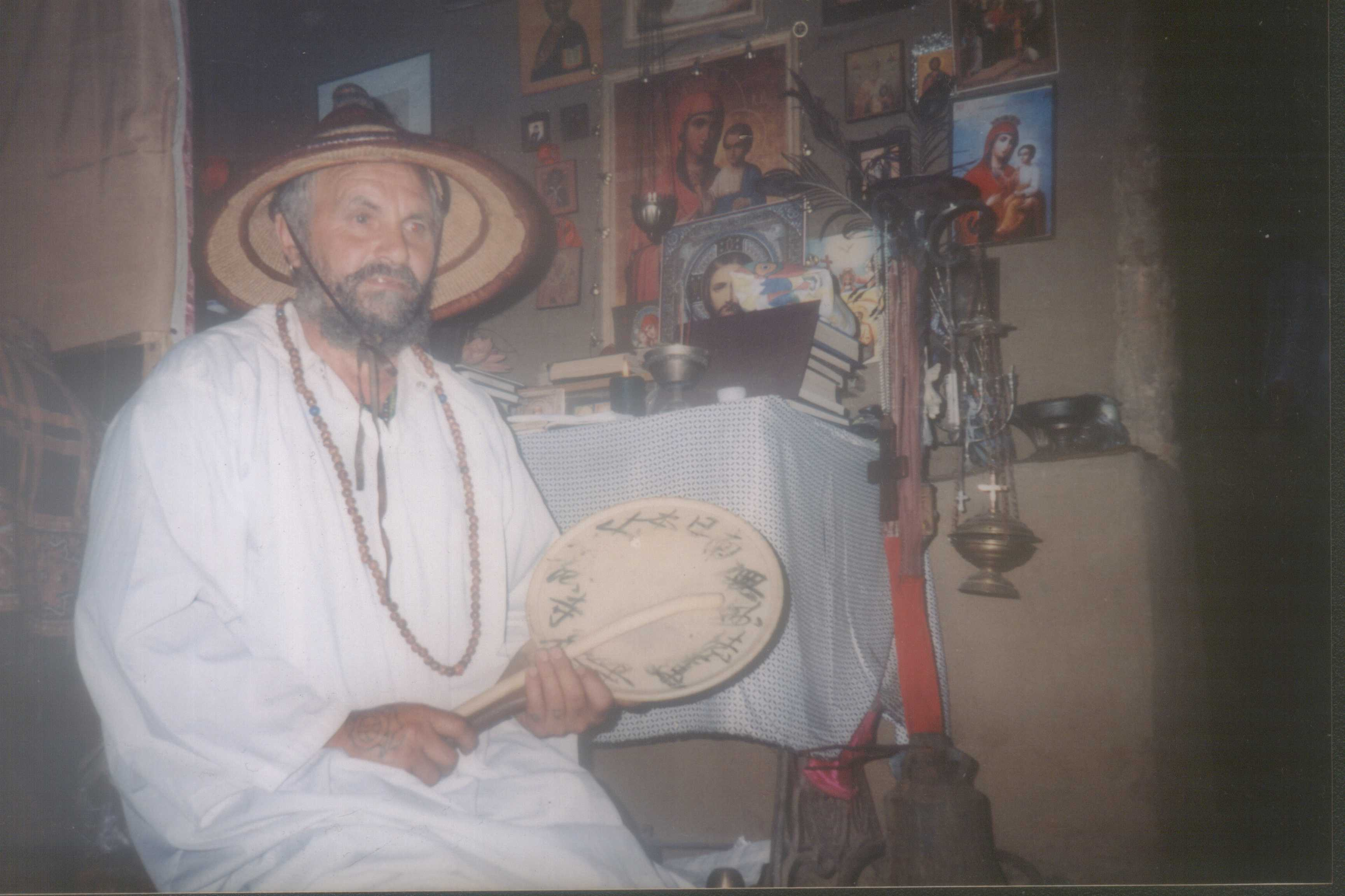 Nikolay Ivanovich Tarasenko on his All Religions Mount in the Catholic white attire put on the hat and holding in his hands a drum of famous Teacher of the Nipponzan Myohoji Order in Eurasia — Junsei Terasawa.